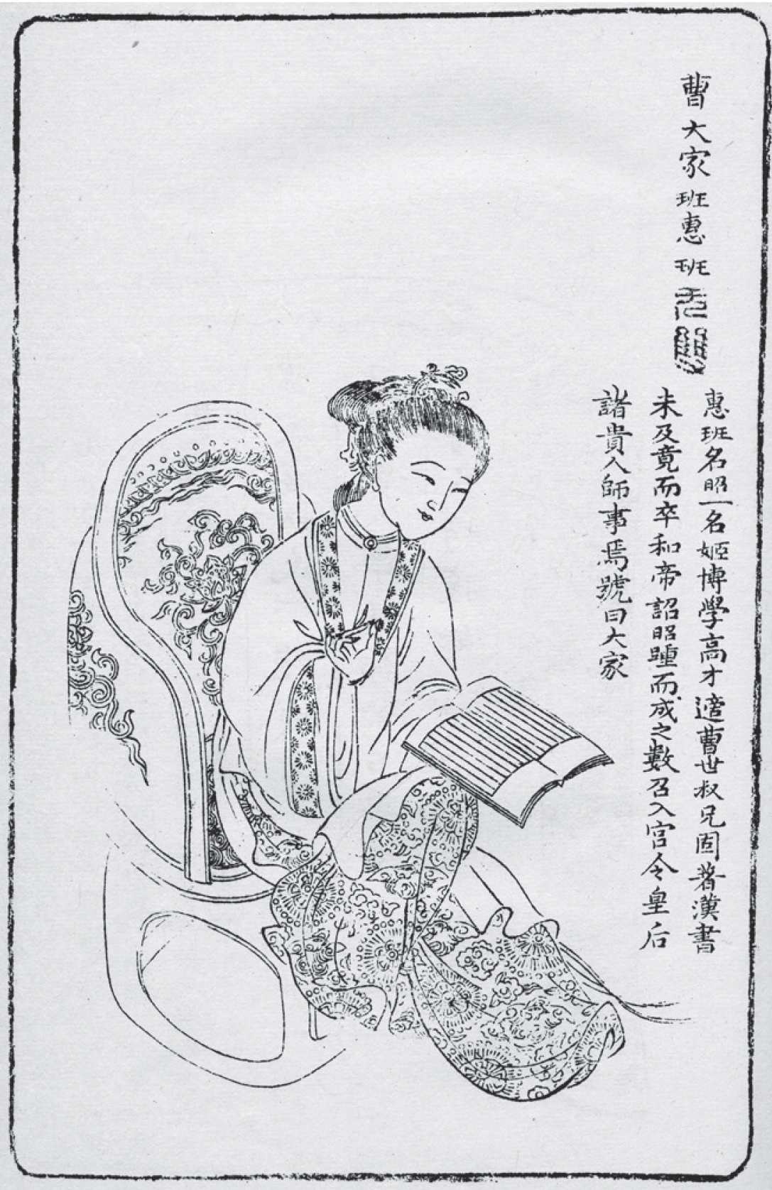 This depicts Ban Zhao (班昭).